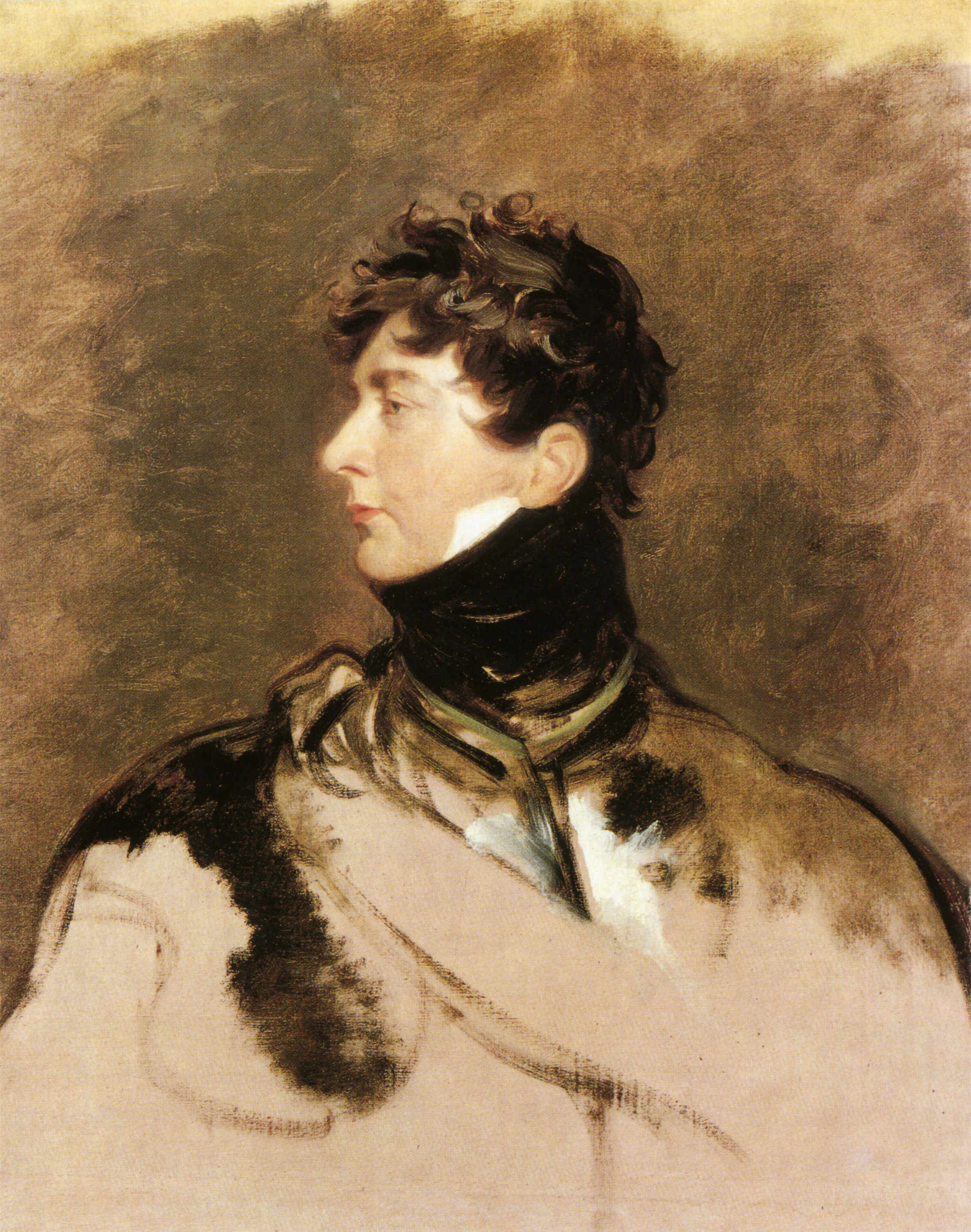 Caption from the museum's website: Lawrence's unfinished profile was intended for a medal which was never struck. The cosmetic-wearing and much overweight Prince was regularly mocked as the 'Prince of Whales' and Lawrence had to defend this elegant portrait as a true likeness.